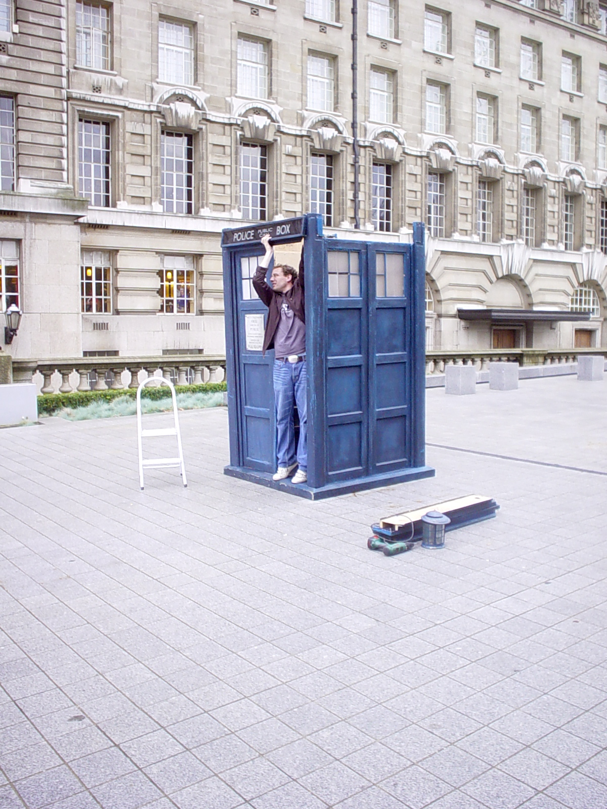 a TARDIS prop being disassembled in London. Original description: What should I spy on my walk to work this morning, but a group of people filming a scene for the next series of Doctor Who. They were just packing up as I walked by, pretty damn cool tho!